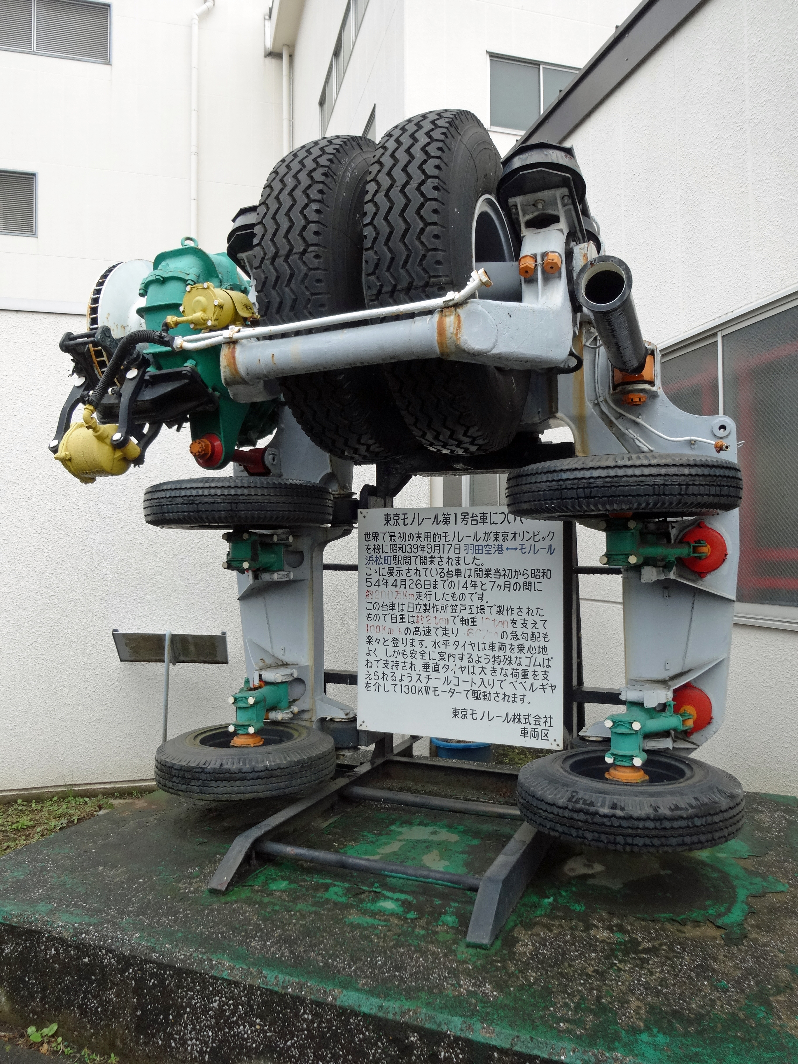 The first bogie truck of Tokyo Monorail preserved at the Showajima Depot